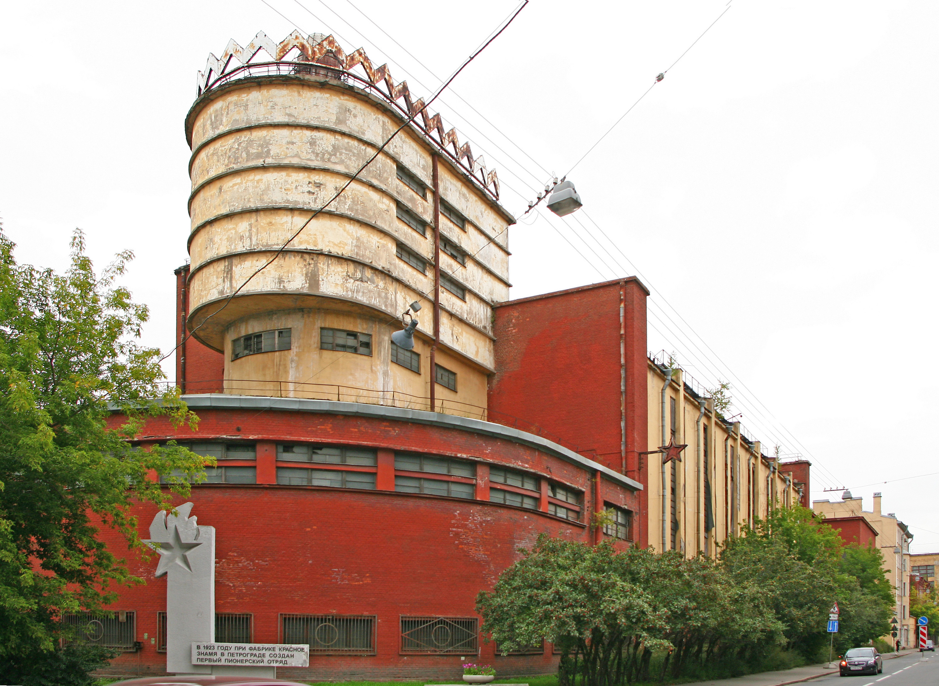 Power station of the Red Flag Textile Factory (Krasnoe Znamya factory), in Saint Petersburg. Designed by Erich Mendelsohn in 1926.